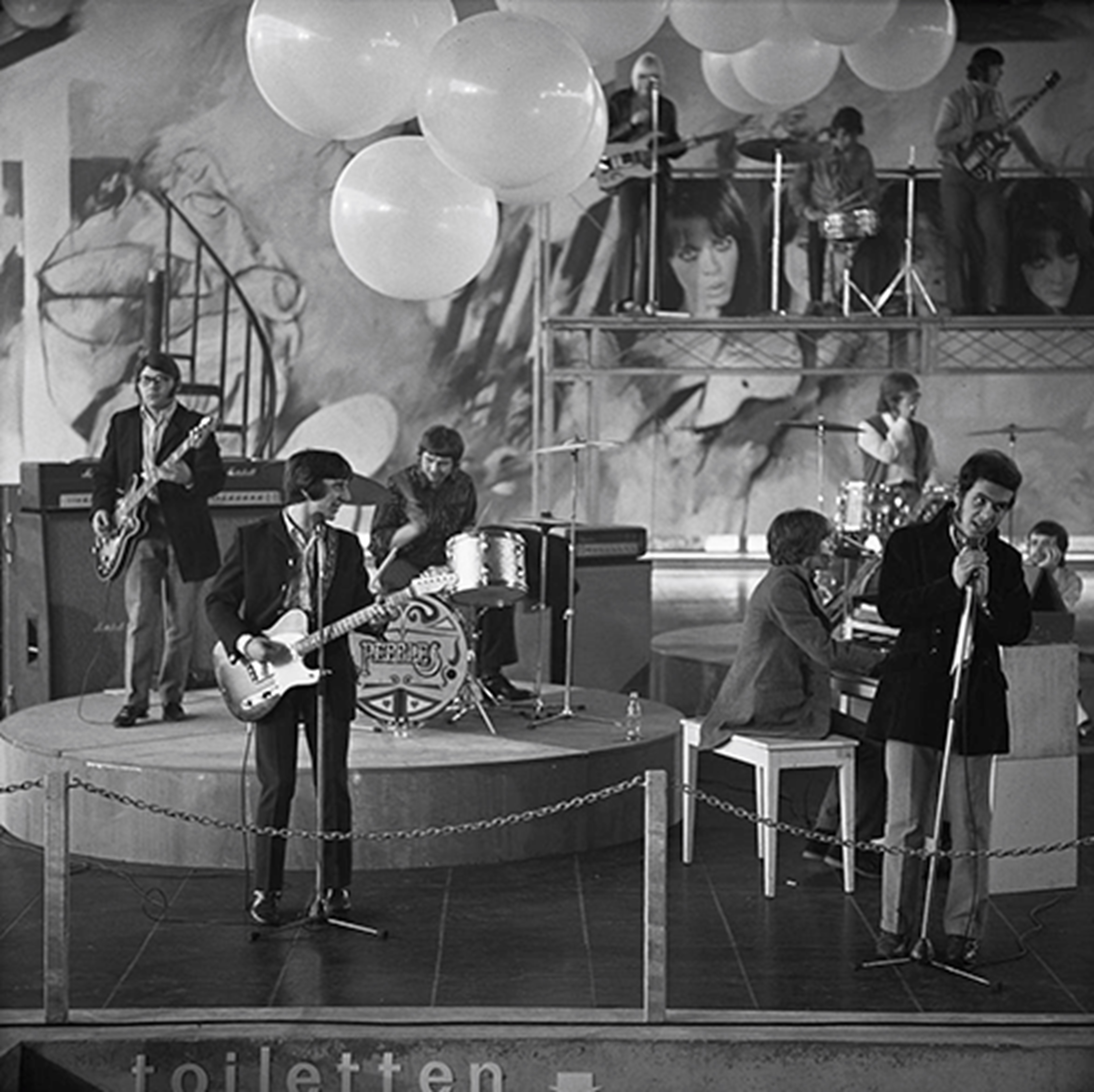 Belgian pop group The Pebbles performing at Dutch TV programme Fenklup, 7 June 1968